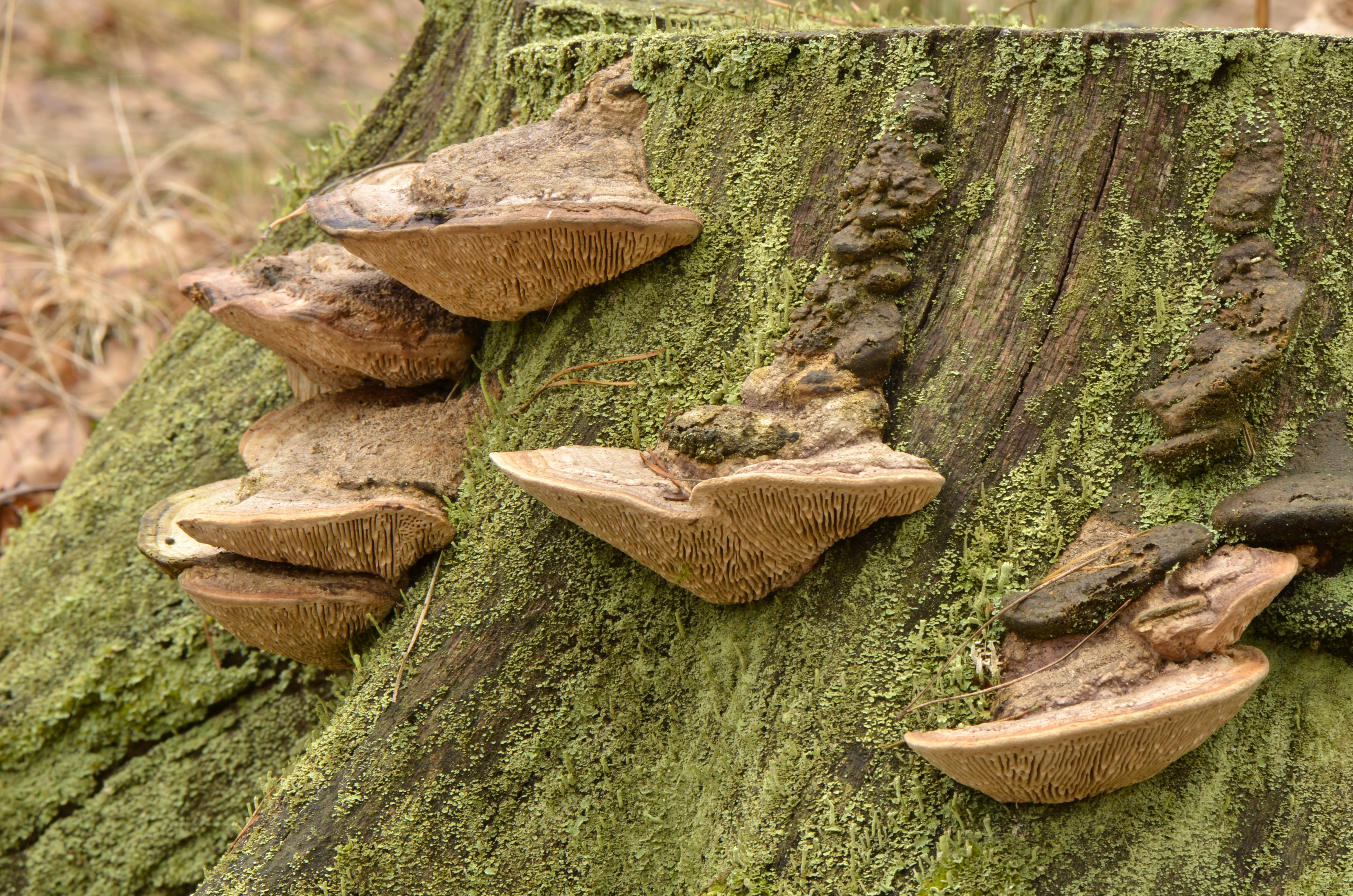 Daedalea quercina - oak mazegill - maze-gill fungus, Hesse, Germany.